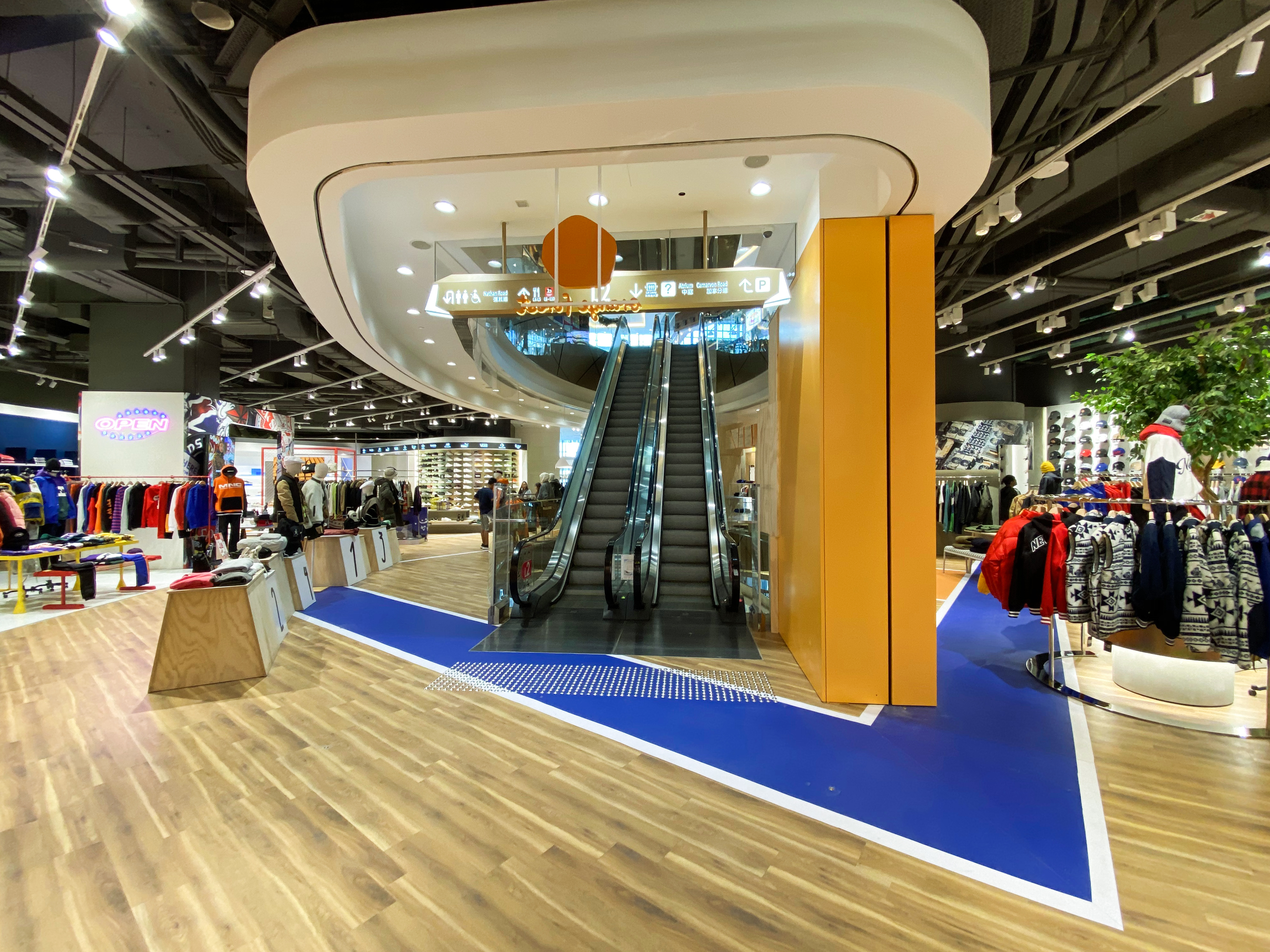 The ONE Level 2 I.T Orange Forest